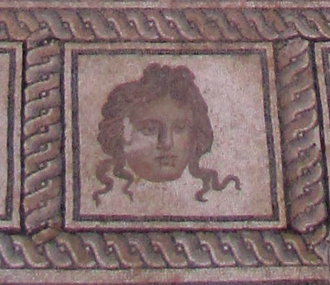 Dionysosmosaic Dionysos